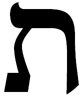 Hebrew letter taw